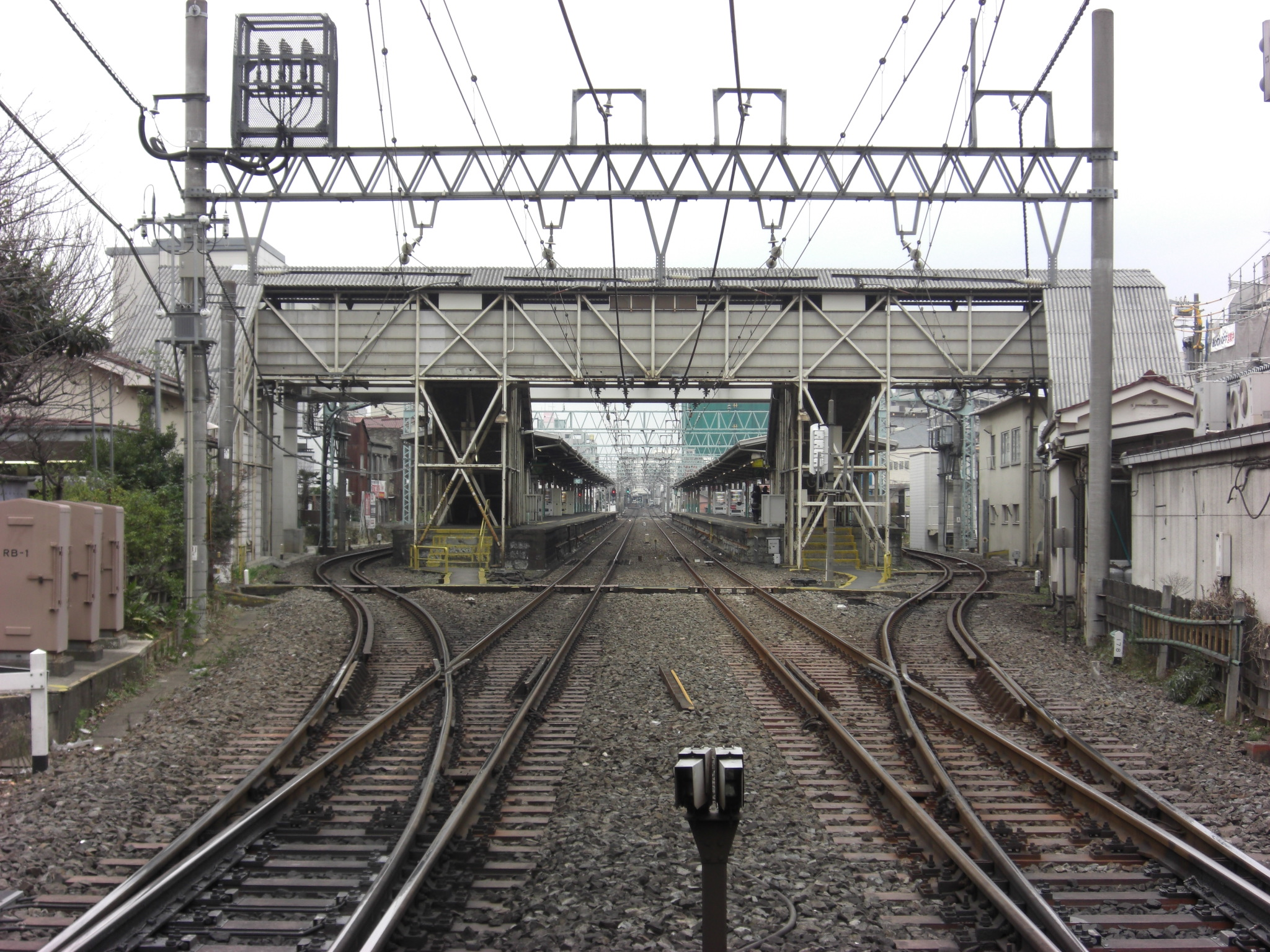 View of the platforms of Naka-Itabashi Station on the Tobu Tojo Line, looking northward